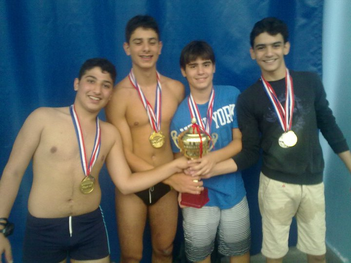 with the Homs schools tournament trophy